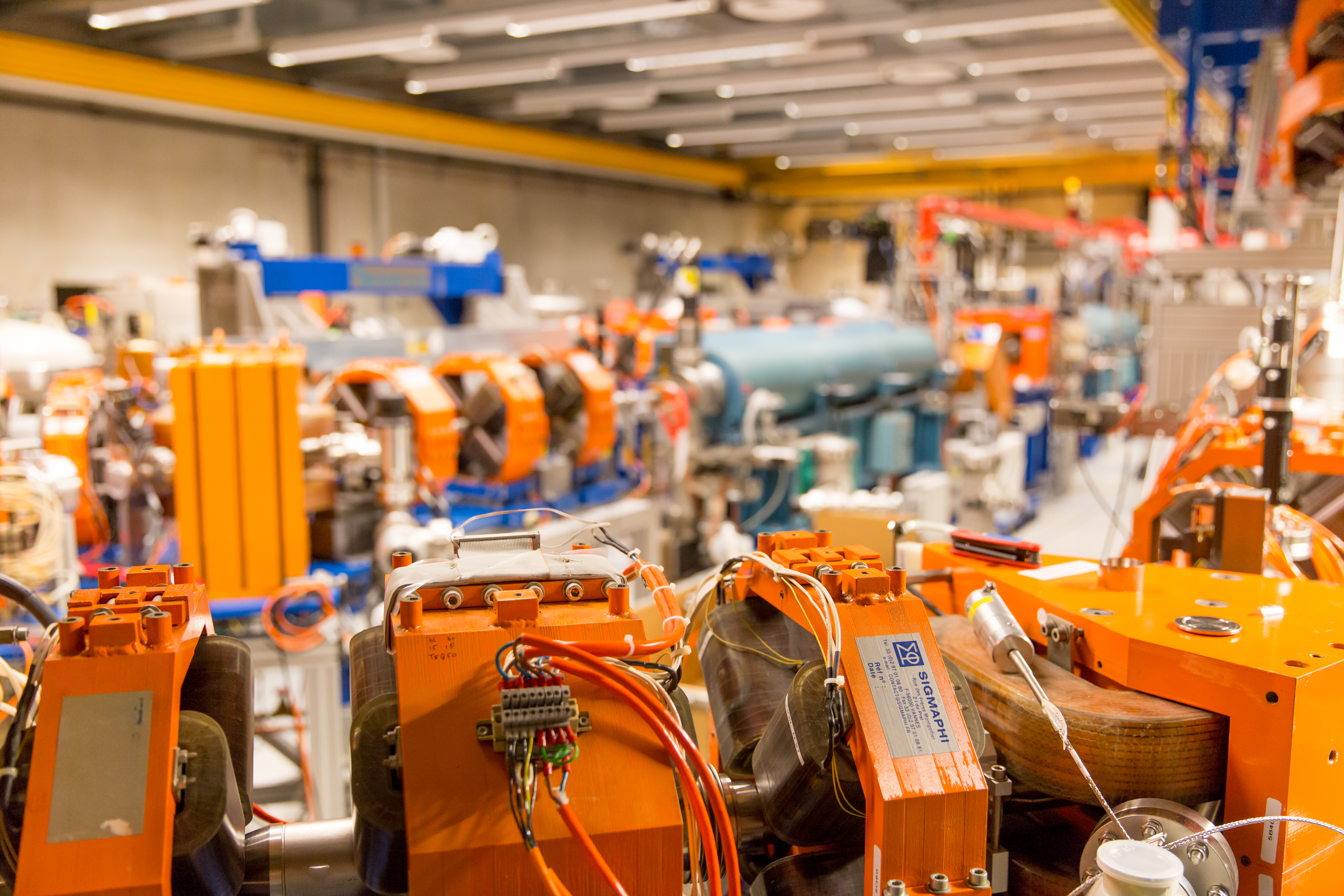 the FELIX laser, photo by Joeri Borst